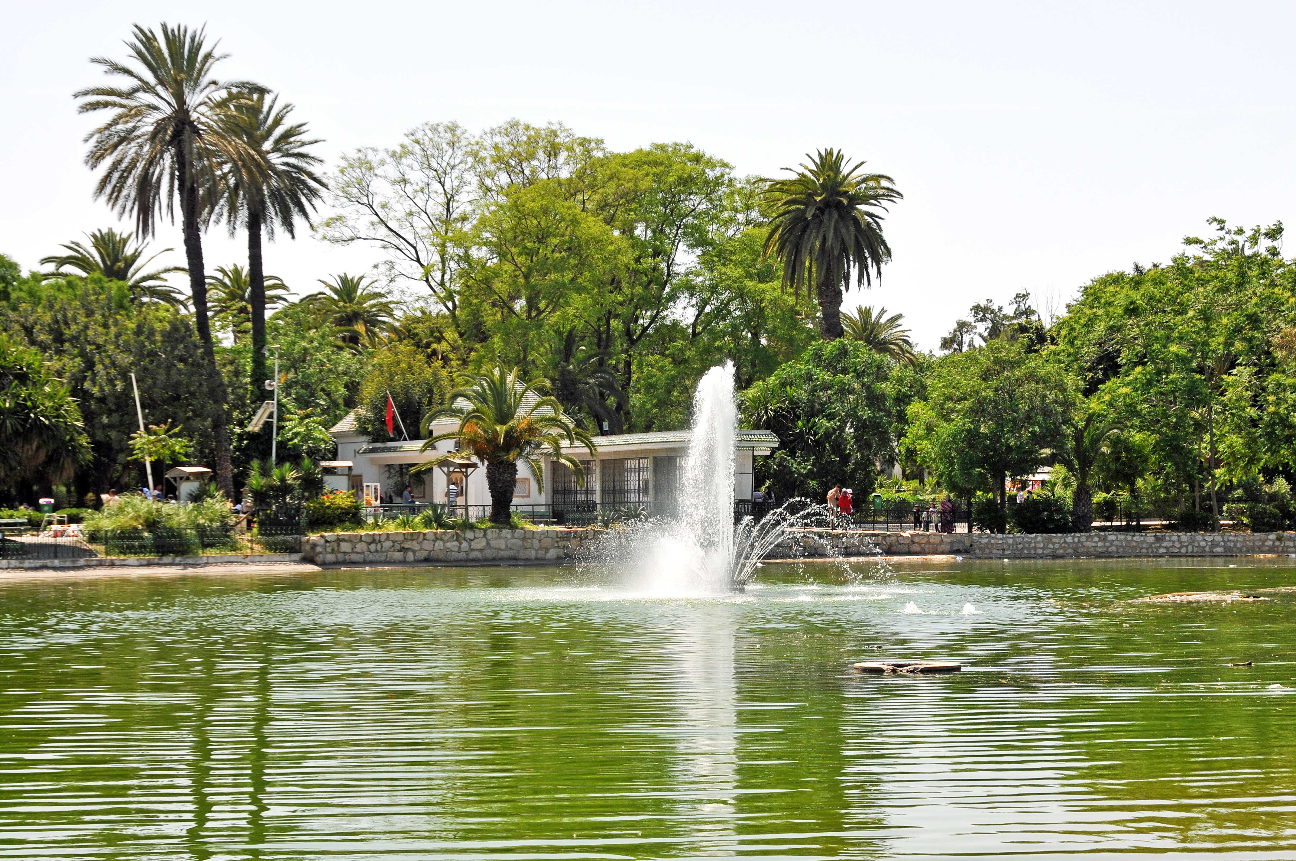 Belvedere Park in Tunis, Tunisia.